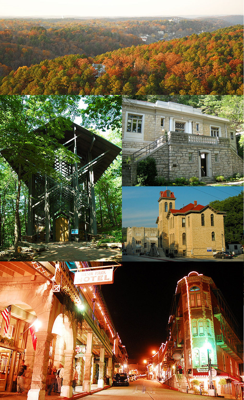 Collage of Eureka Springs, Arkansas